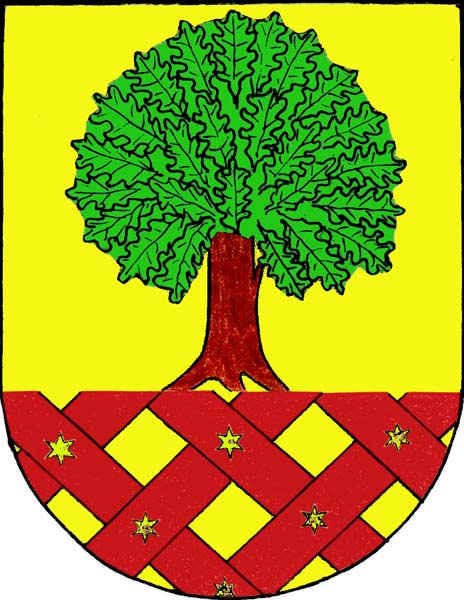 Municipal coat of arms of Dobrochov village, Prostějov District, Czech Republic.